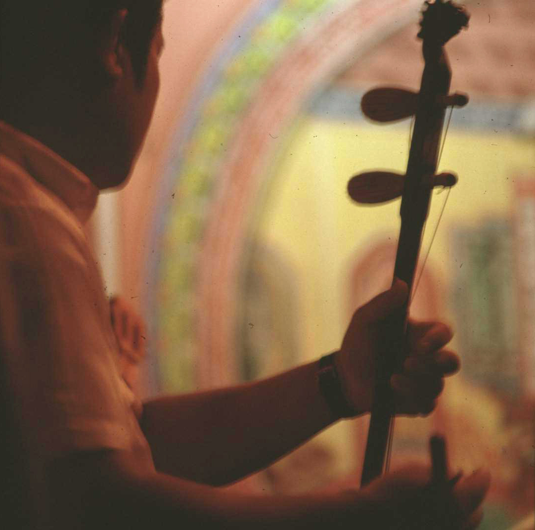 Performer with erhu, photographed Singapore February 1969 × July 1971.